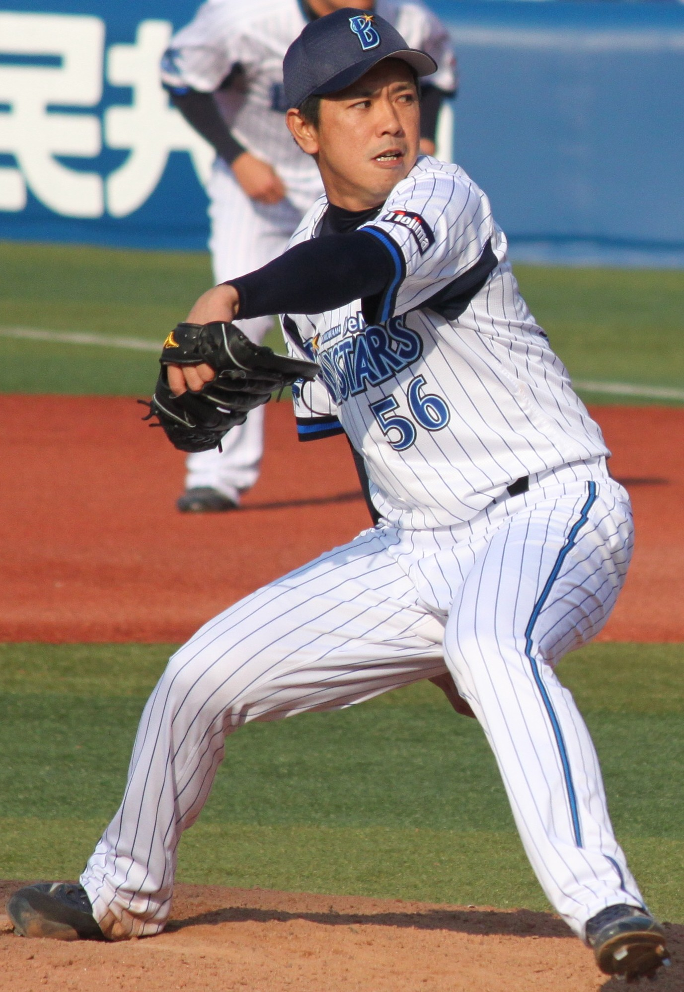 Shuichiro Osada, pitcher of the Yokohama DeNA BayStars, at Yokohama Stadium.